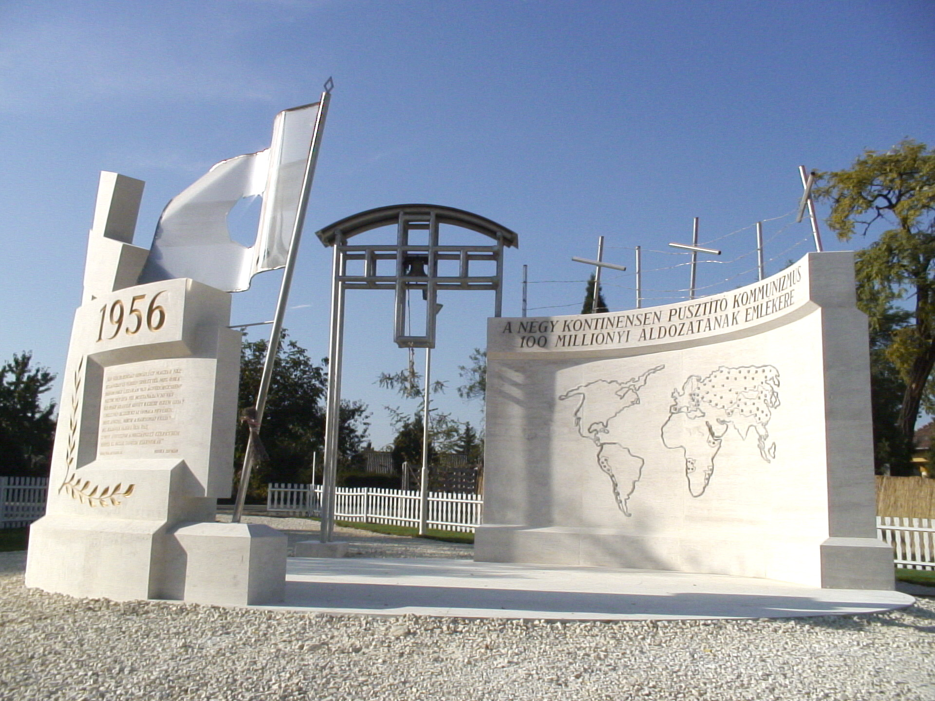 Gloria Victis Memorial to the 100 million victims of communism